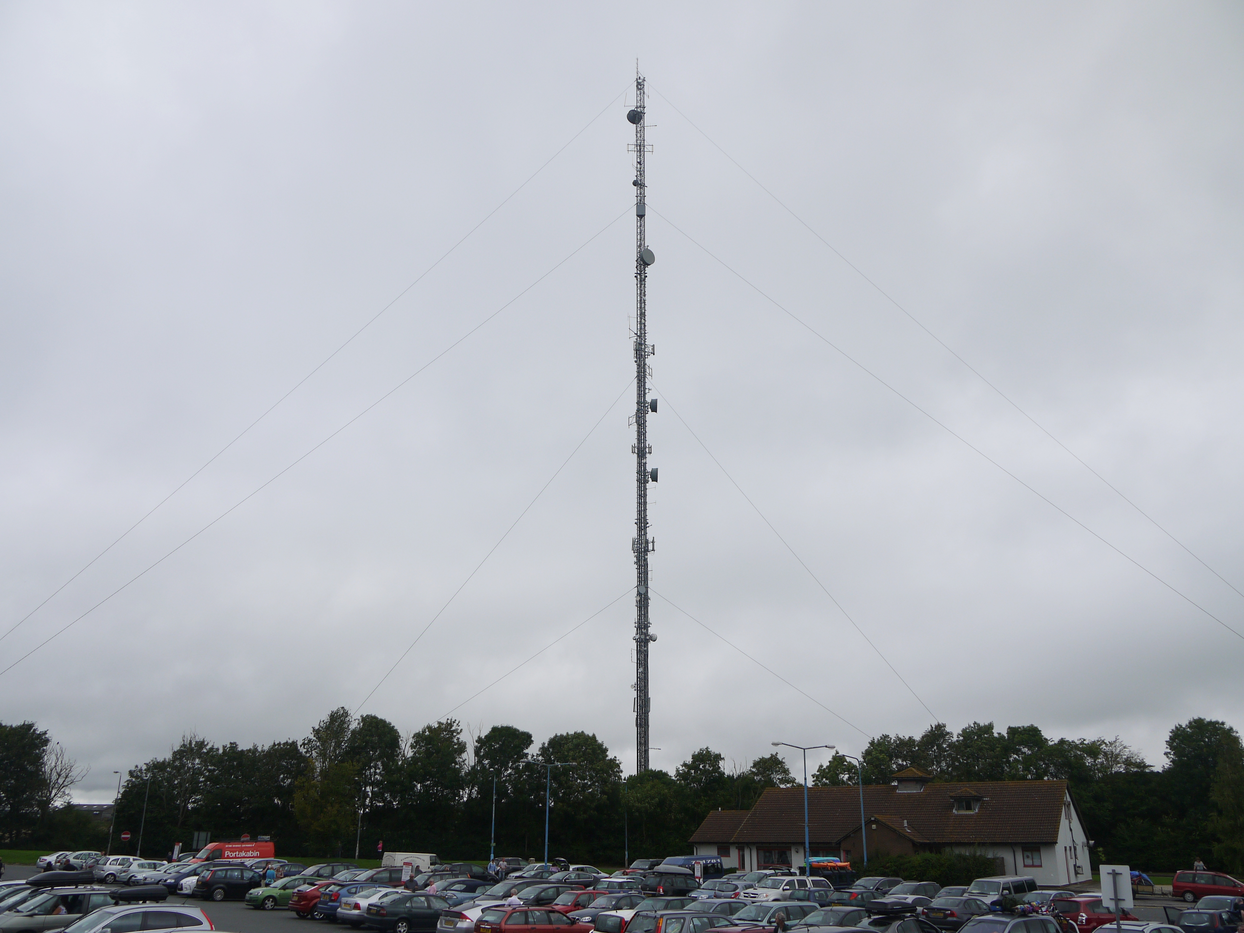 Photo of the Membury transmitting station taken from the nearby service station